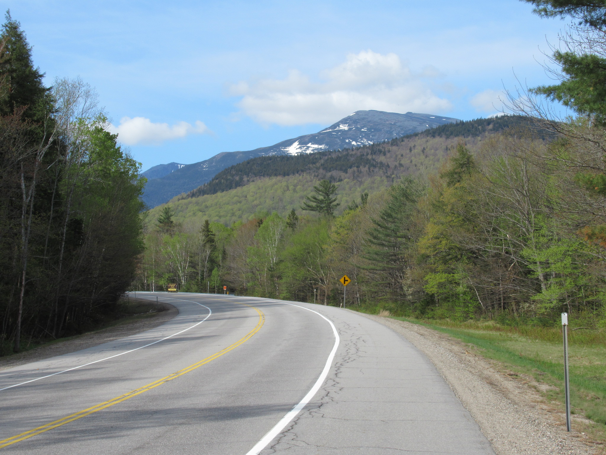 New Hampshire Route 16 entering Martin's Location in the White Mountains of New Hampshire